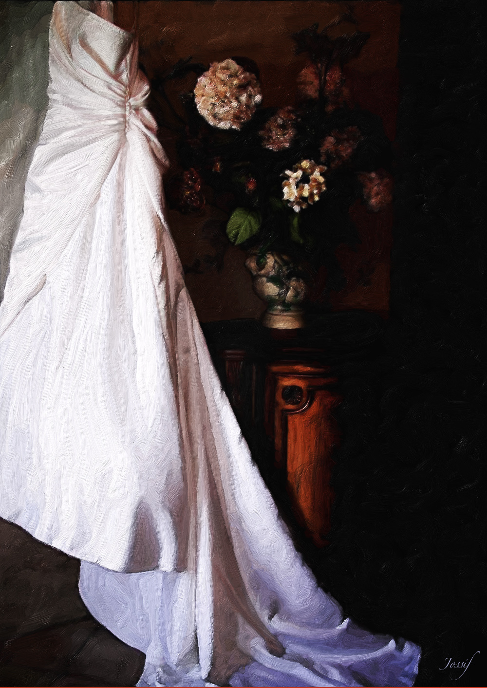 "She Wore White" Digital Painting by User:Jossi in collaboration with Mary Grayson. June 2004.